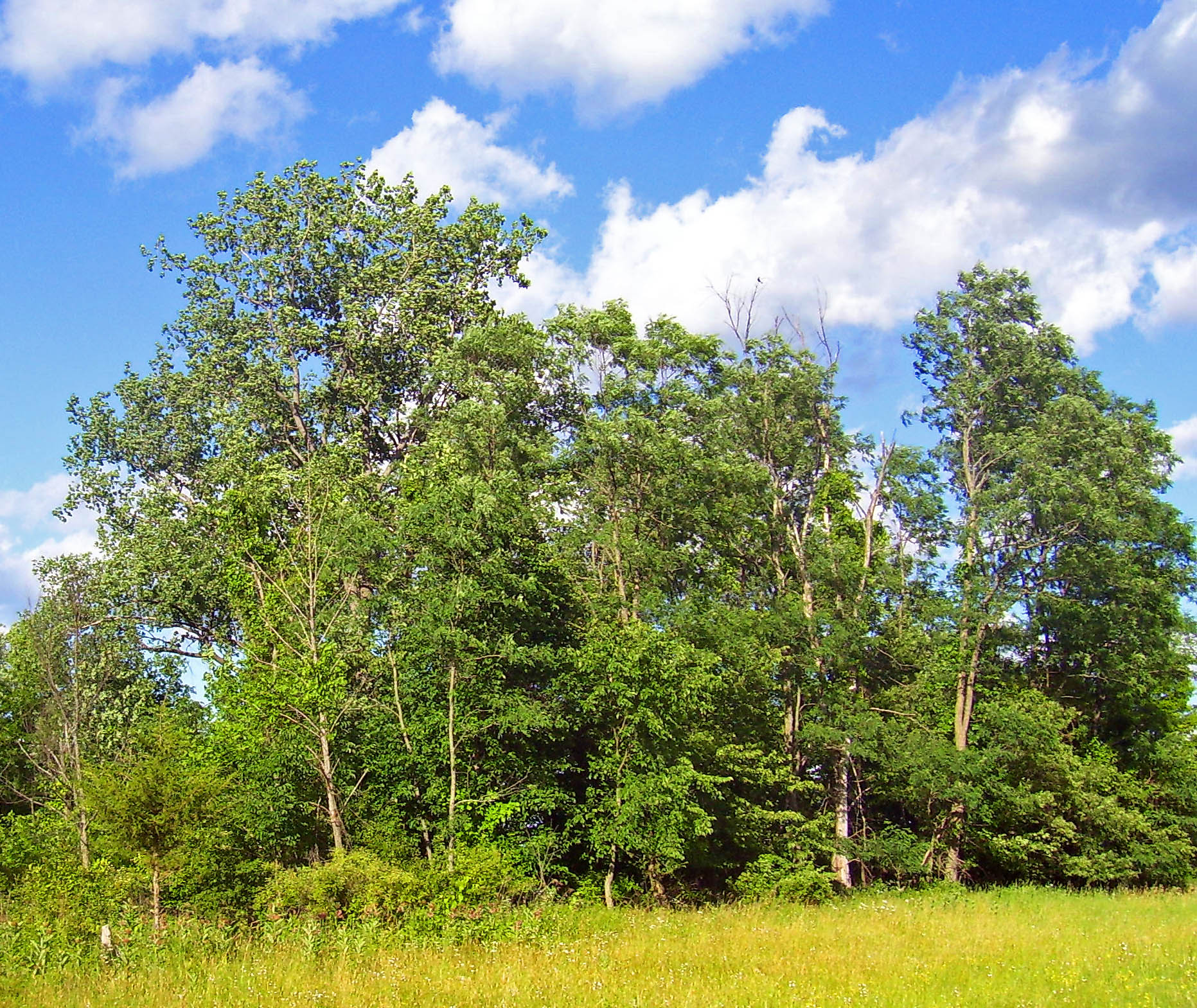 Wooded perimeter of Shawangunk Grasslands National Wildlife Refuge